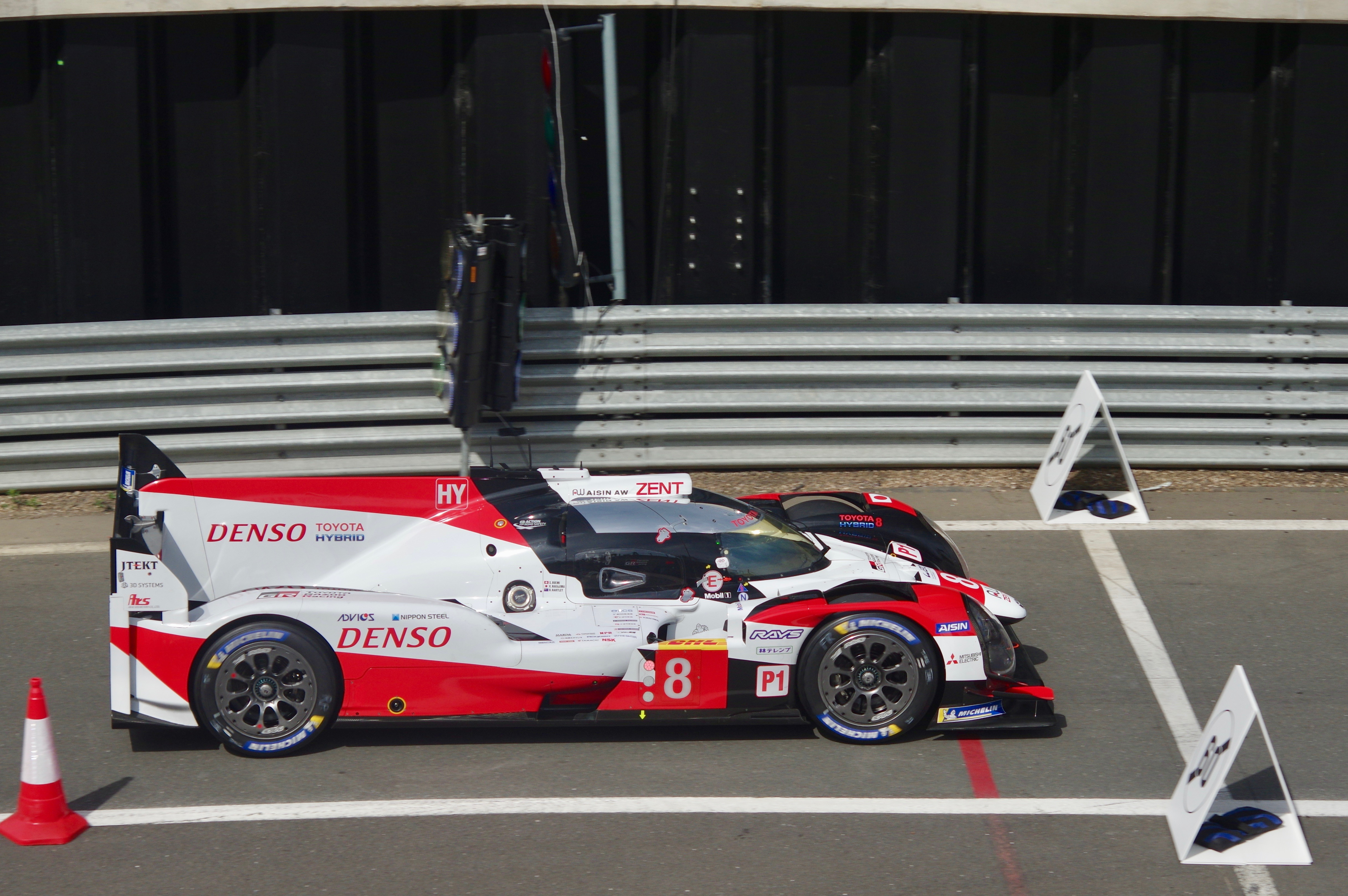 2019 4 Hours of Silverstone 8.